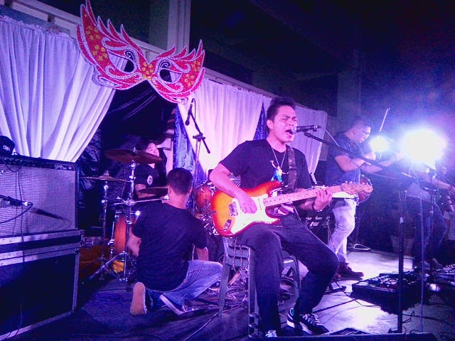 Silent Sanctuary performing in the Student's Night event of San Jose Academy located in Navotas, Philippines on 2016.